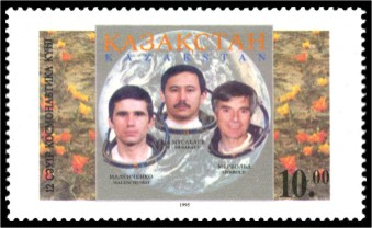 Stamp of Kazakhstan